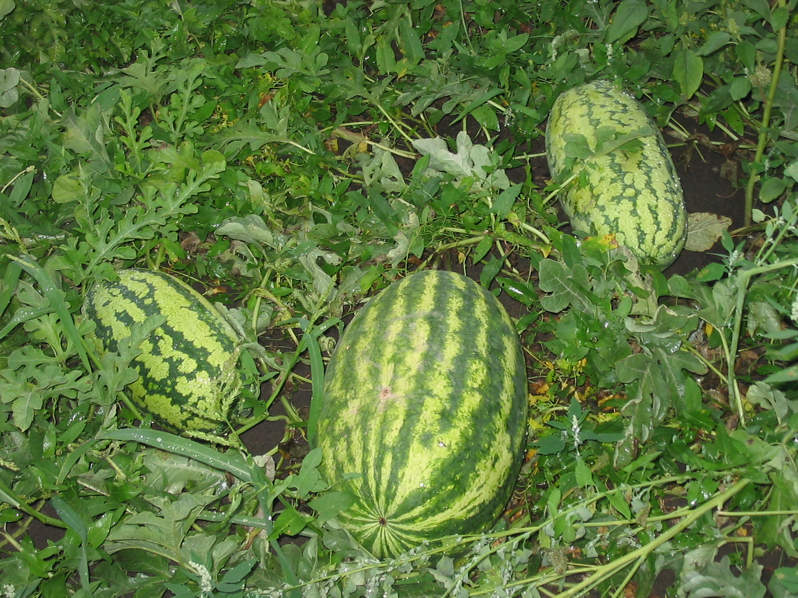 Watermelons